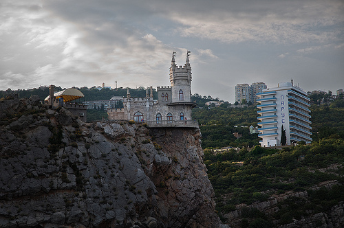 Swallow's Nest castle is is one of the most popular visitor attractions in Crimea, situated on top of a 40-metre (130 ft) high Aurora Cliff.